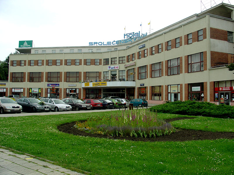 Hotel Společenský dům in Otrokovice, Czech Republic. Tylova 727.